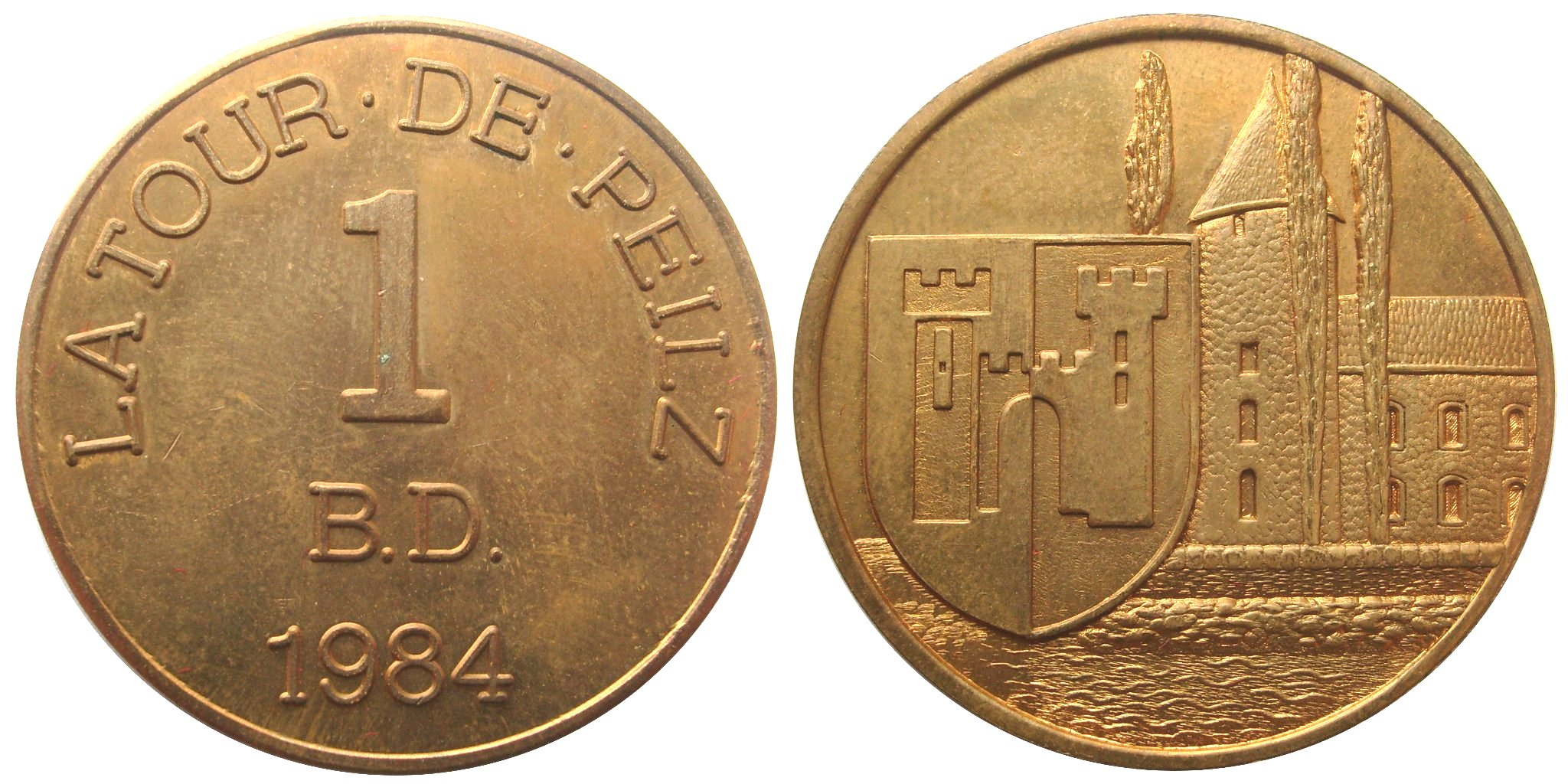 1 Boëland, La Tour-de-Peilz, Switzerland, 1984